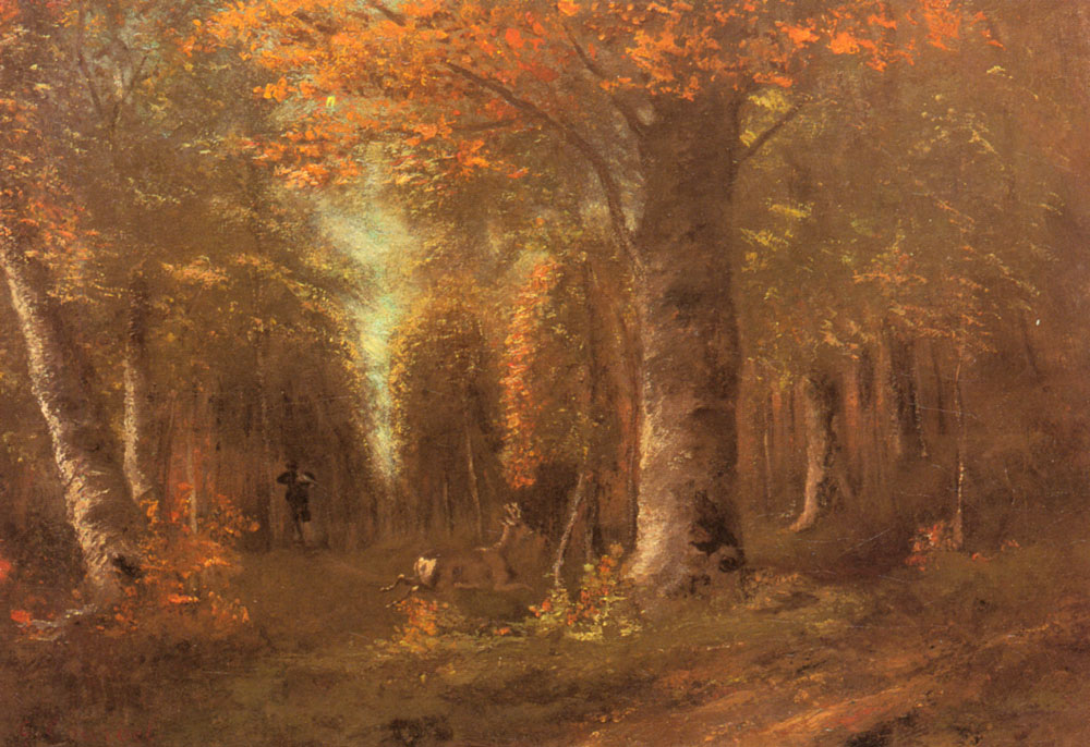 Forest in Autumn, oil on canvas, 21.26 inch wide x 14.96 inch high